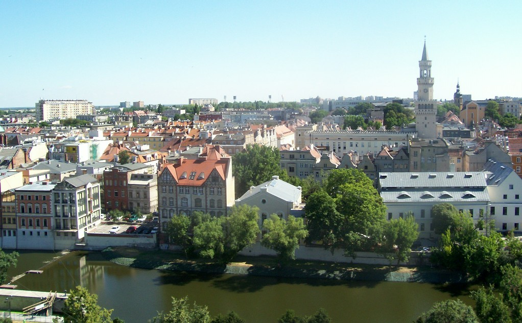 The north part of Opole's centre